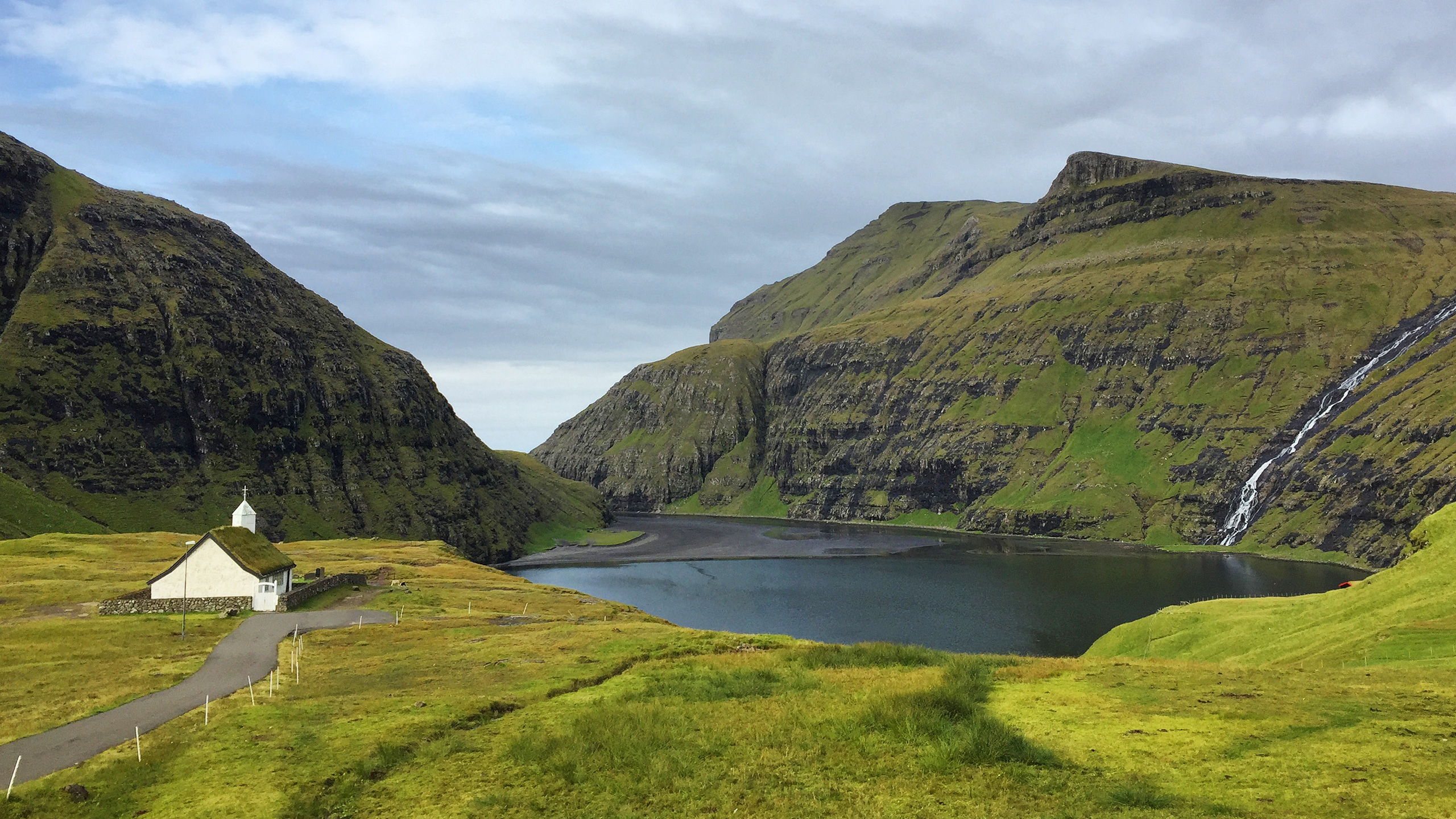 Overview of Saksun, Streymoy, Faroe Islands with view of the local church and lagoon.